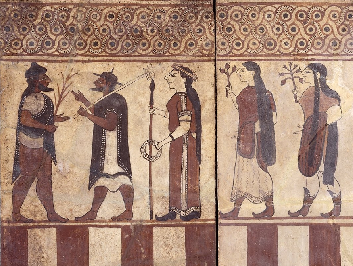 Etruscan Boccanera Plaques from Cerveteri with the judgement of Paris From left to right: Elcsantre (Paris Alexandros); Turms (Hermes); Menrva (Athena); Uni (Hera); Turan (Aphrodite)